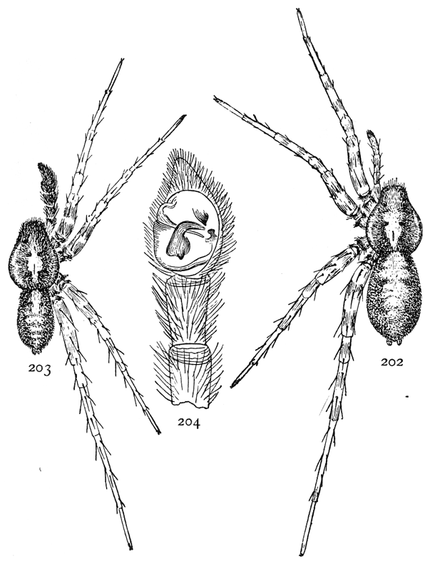 Pardosa nigropalpis.—202, female. 203, male. Both enlarged four times. 204, end of palpus of male.